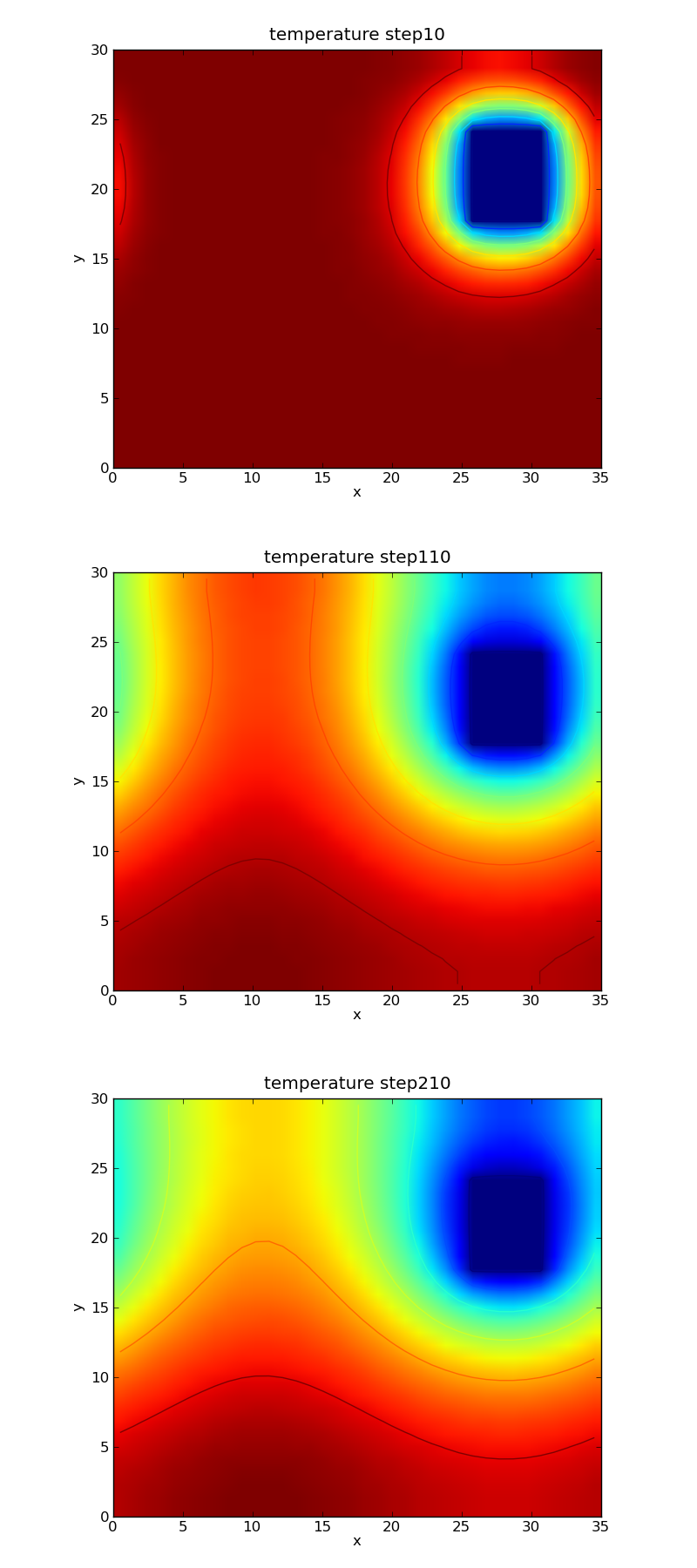 2D Model of the Heat equation, 36m * 31m, 1m * 1m grid, timesteps = 3.53 h, leapfrog-method Air in a nearly perfectly(except for the metal bar) isolated, periodically (left and right) heating pipe. Being cooled down by the metal rod in the top right. Metal temperature = 283K Air starting temperature = 383K Timesteps 10, 110 and 210